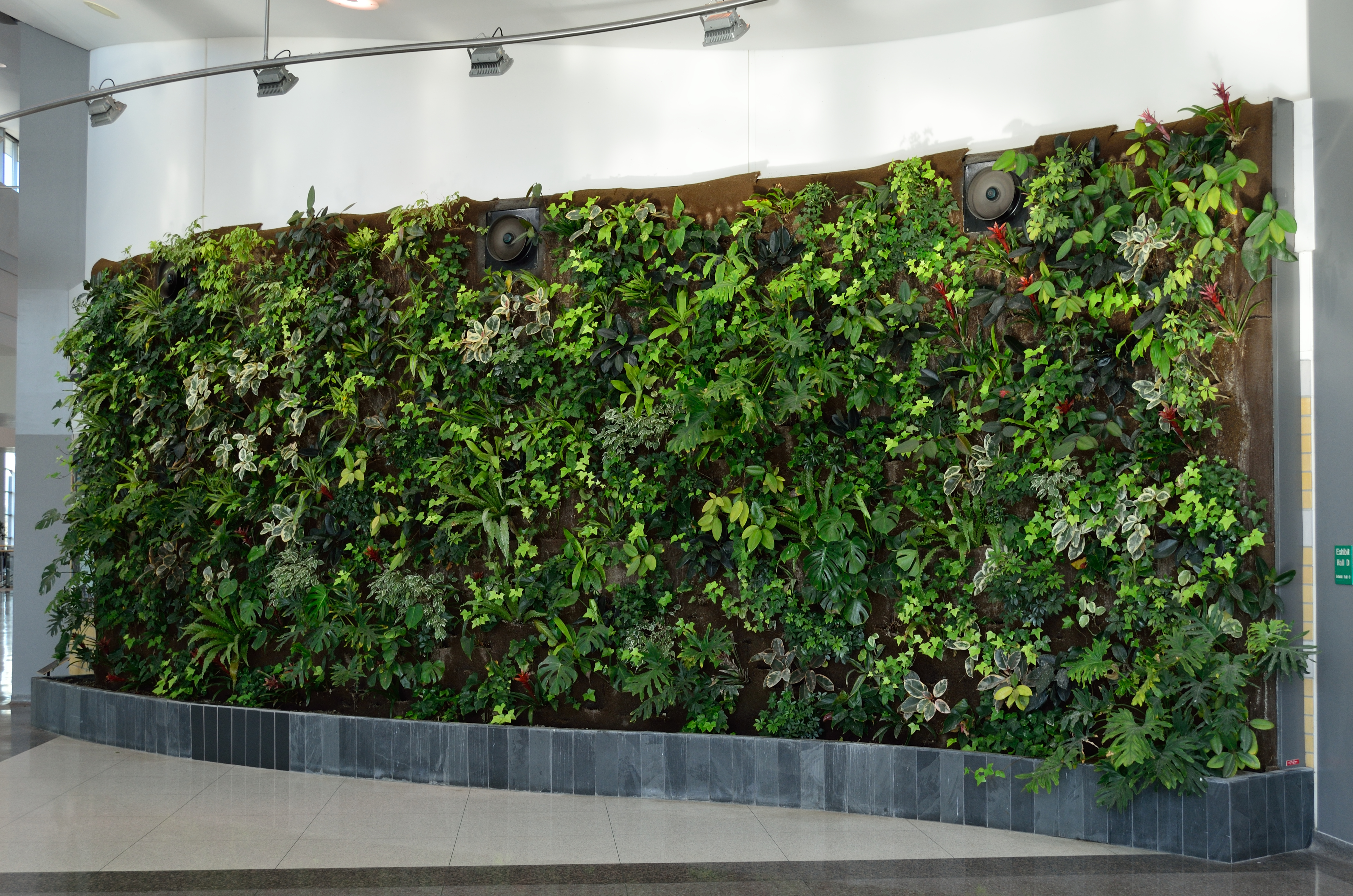 Direct Energy Centre "Living Wall" - installed for G20 . Price tag: $246,000.